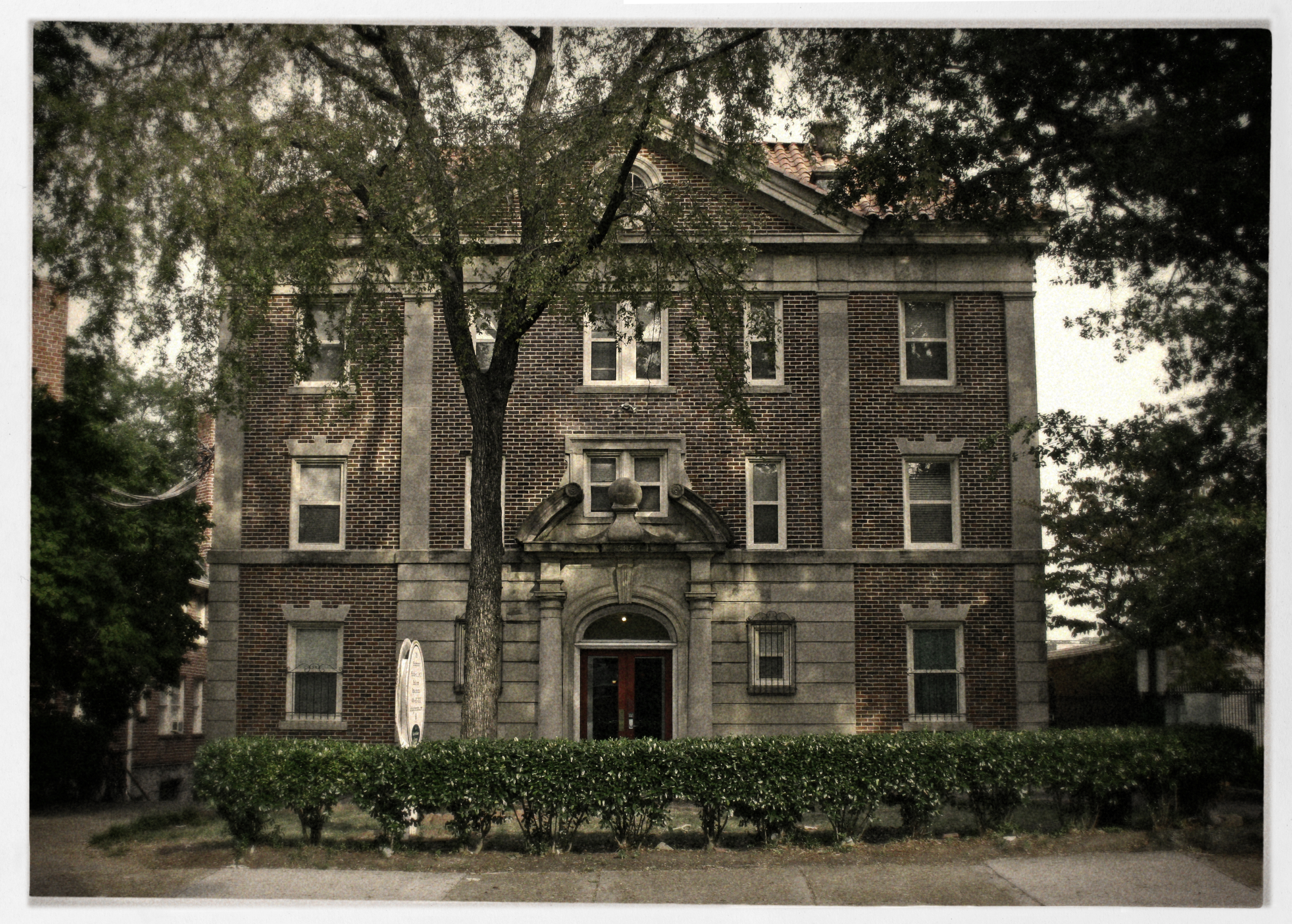 National Register of Historic Places, 705 Piedmont Ave. Atlanta, GA. Photo taken September 25, 2012.